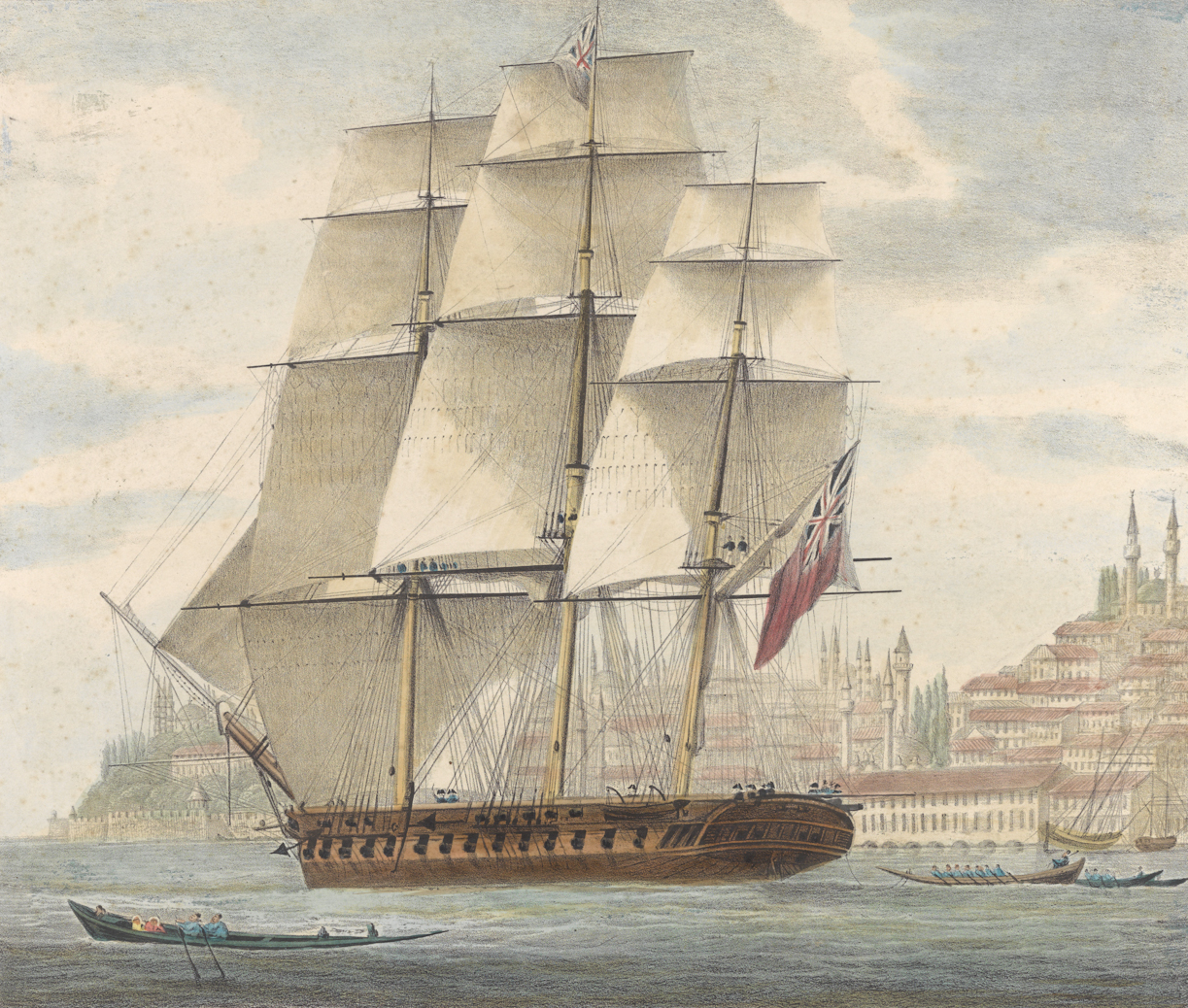 H.M.S. Barham quitting Constantinople With Sir Stratford Canning on bd. 12th August 1832 'Barham' is shown quitting Constantinople with Sir Stratford Canning on board between 6 - 12 August 1832. This view is one from a series depicting the voyage between England and Constantinople, starting in 1831, which was of particular interest since one of the passengers was Sir Walter Scott. The writer has suffered a series of debilitating strokes and had been advised to seek warmer climes to recover. 'Barham' took Scott to Gibraltar and Malta before leaving him at Naples, from where he returned to Scotland overland to die at home in Abbotsford in 1832. At Constantinople they collected Sir Stratford Canning, the British Ambassador to the Ottoman Empire, who spent a decade on other postings before returning to Constantinople in 1842. Inscription: "H.M.S. Barham quitting Constantinople. With Sir Stratford Canning on bd. 12th August 1832." Signed by the artist. Set of six uncoloured impressions, two additional coloured. Most of set marked as lithograph in Malta and dated in 1830s.